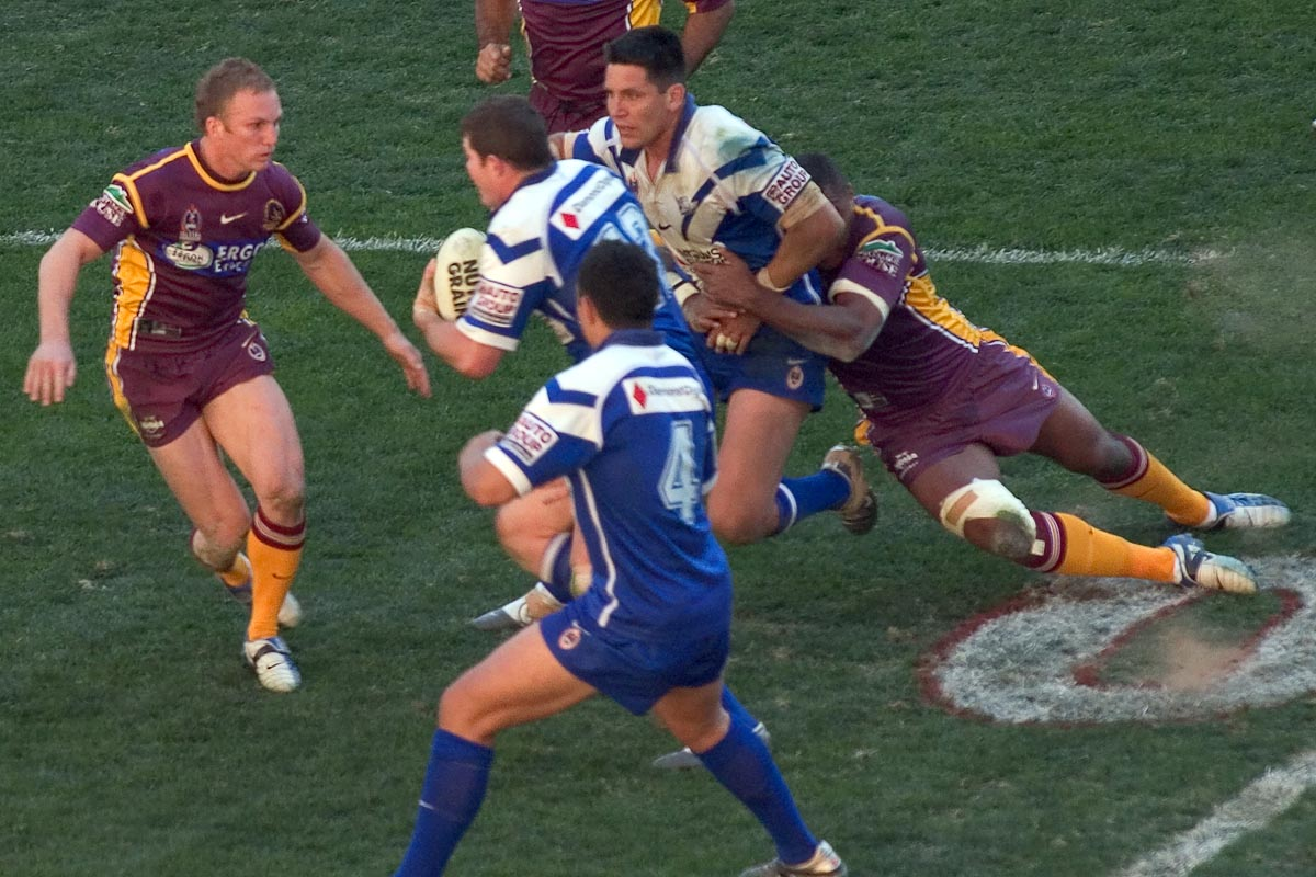 Australian Rugby league match Brisbane Broncos vs Bulldogs.